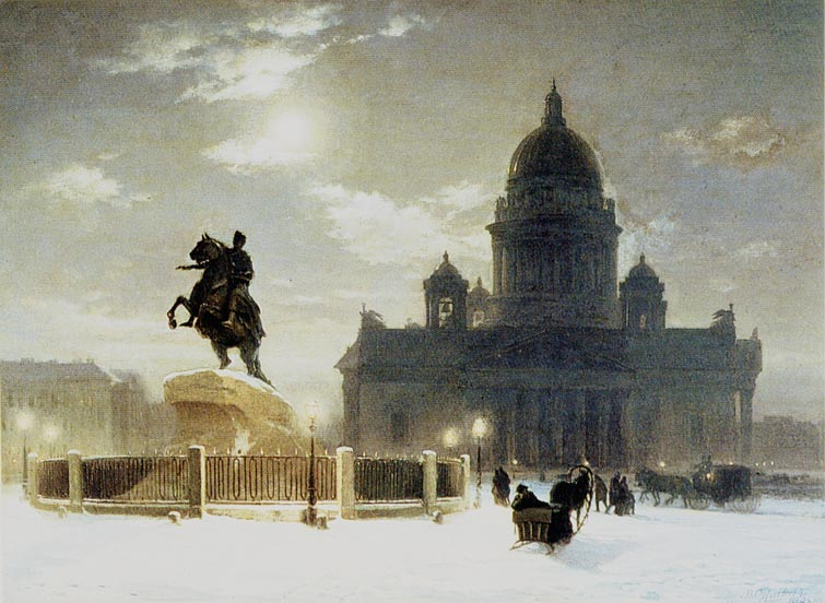 Bronze horseman by Vasily Ivanovich Surikov in front of Saint Isaac's Cathedral or Isaakievskiy Sobor (Russian: Исаа́киевский Собо́р) in Saint Petersburg, Russia is the largest Russian Orthodox cathedral (sobor) in the city